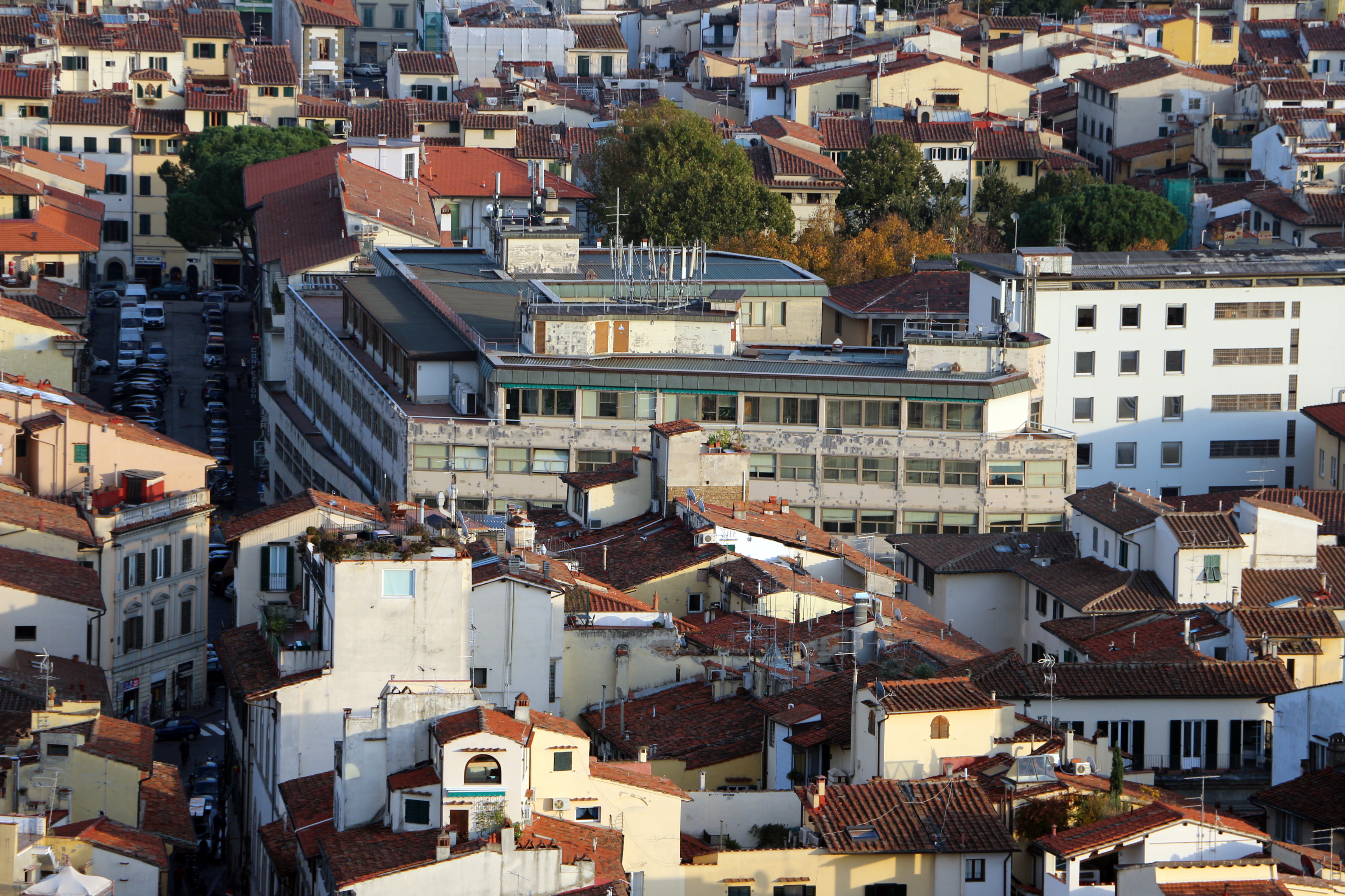 Exterior of Santa Maria del Fiore (Florence)